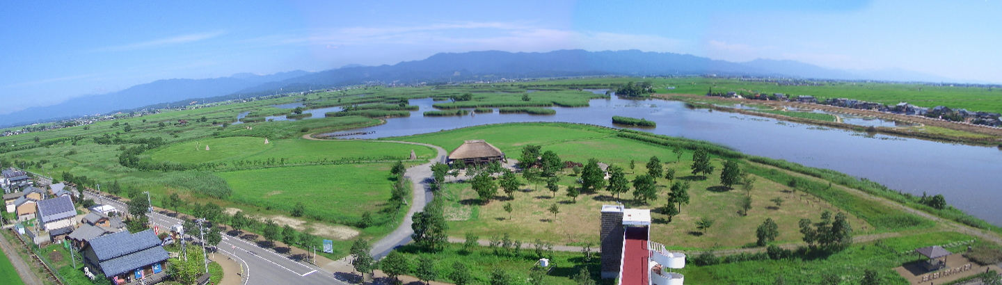 View of Fukushimagata in Kiat-ku, Niigata, Niigata prefecture, Japan.